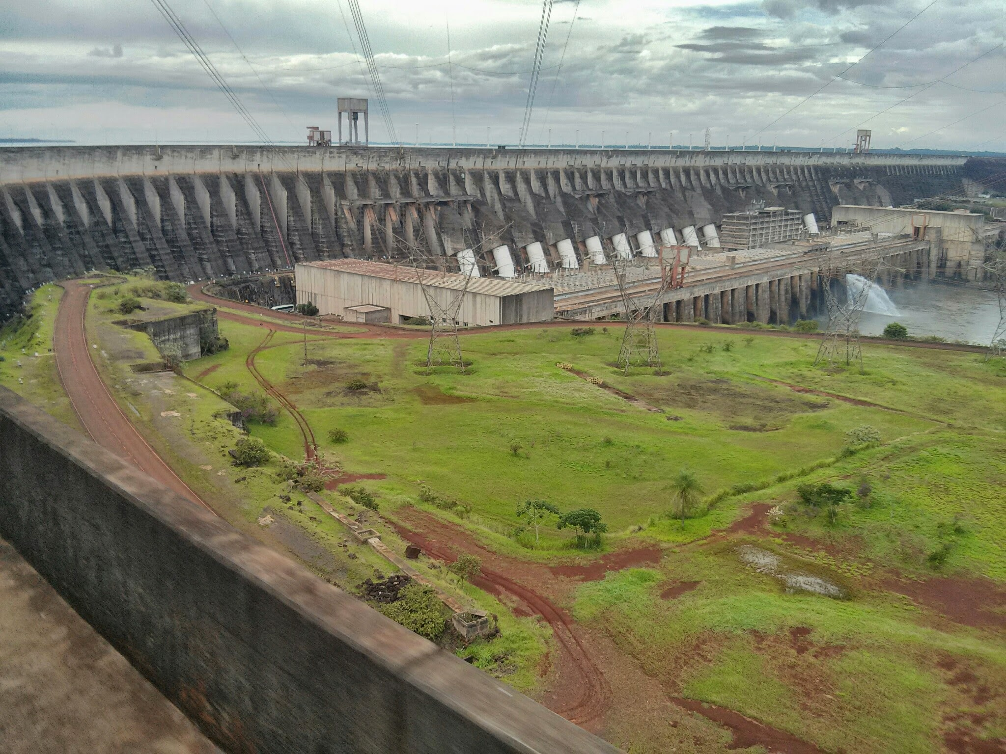 Hernandarias District, Paraguay